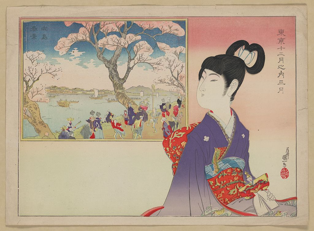 [Tōkyō jūnikagetsu no uchi Sangatsu by Otake Kunikazu. Uploader's note: See also here] Original text: A young girl holding a doll remembers the revelry during a festival beneath blossoming cherry trees on the banks of a river. Notes: Forms part of: Japanese prints and drawings (Library of Congress). Exhibited: "Sakura : Cherry Blossom as Living Symbol of Friendship" in the Graphic Arts Gallery, Thomas Jefferson Building, Library of Congress, Washington, D.C., 2012. Exhibit caption: The small landscape depicted celebrates Mukōjima situated on the east bank of the Sumida River. This is still a famous destination for viewing the cherry blossom trees that were first planted there by Shōgun Tokugawa Yoshimune (1684-1751). The fashionable young girl in the foreground is holding what is likely an emperor doll associated with the March 3rd Hinamatsuri or Girls Day festival. [Otake] Kunikazu was a student of Utagawa Kunimasa and the oldest of three artist brothers. Prints of this type, called kuchi-e or "mouth pictures," were made as frontispiece illustrations for novels and literary journals. They were especially popular during the Meiji era (1868-1912) phenomenon.